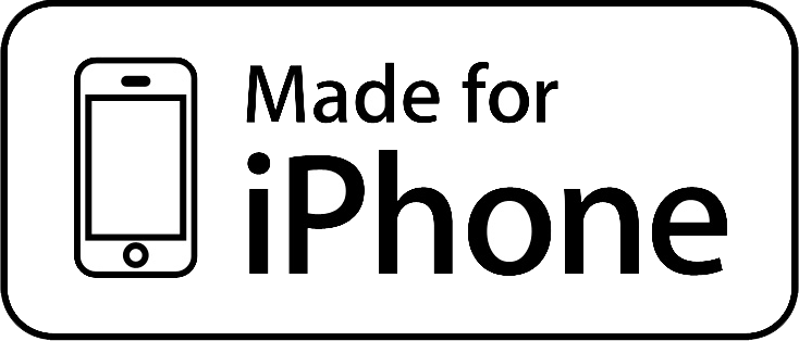 The "Made for iPhone" emblem appearing on Apple-approved iPhone accessories.